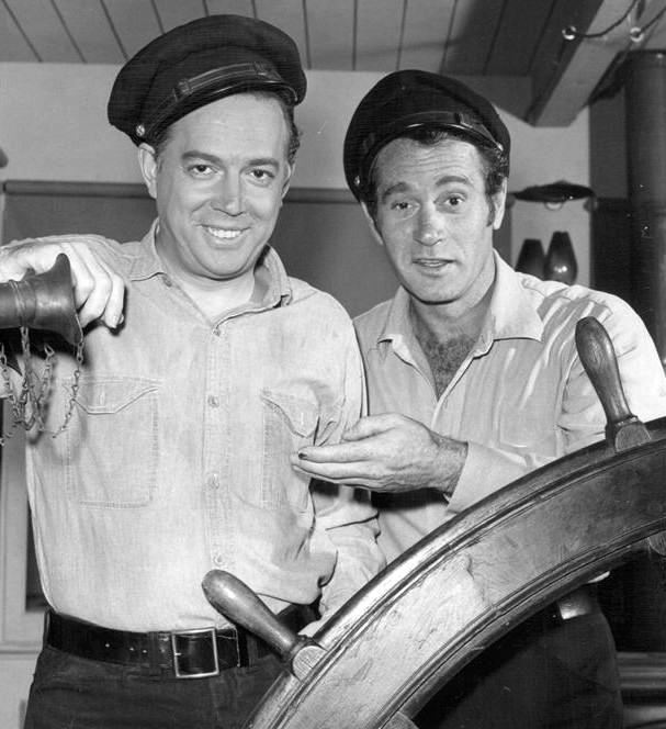 Publicity photo of Hugh Downs and Darren McGavin from the television show Riverboat. Downs was a guest star in the "Night of the Faceless Men" episode that aired 28 March 1960.